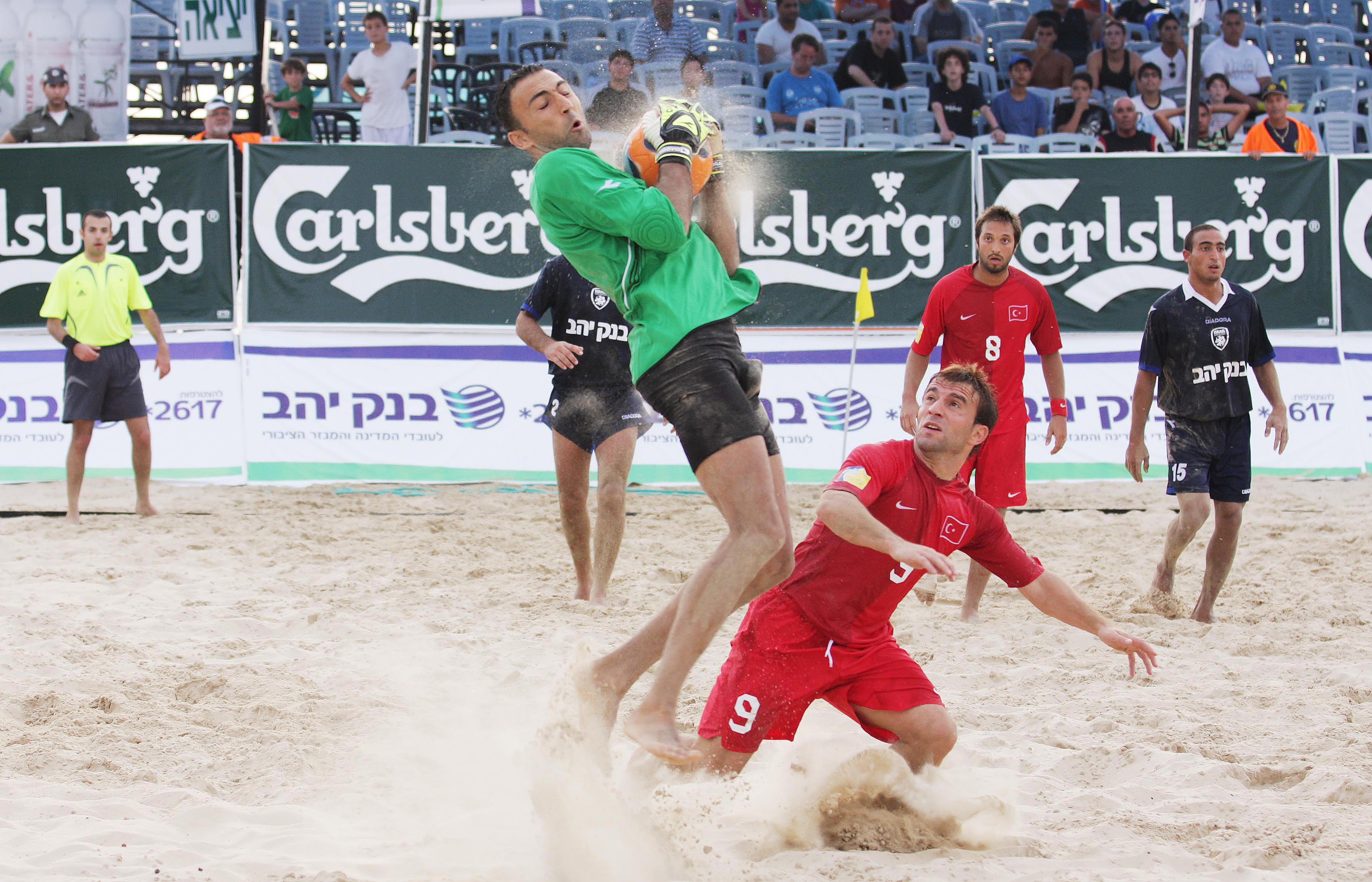 Photo from the match between the Israeli and the Turkish beach soccer teams, that was played as a part of the Challenge Cup 2008, at the Poleg beach in Netanya.